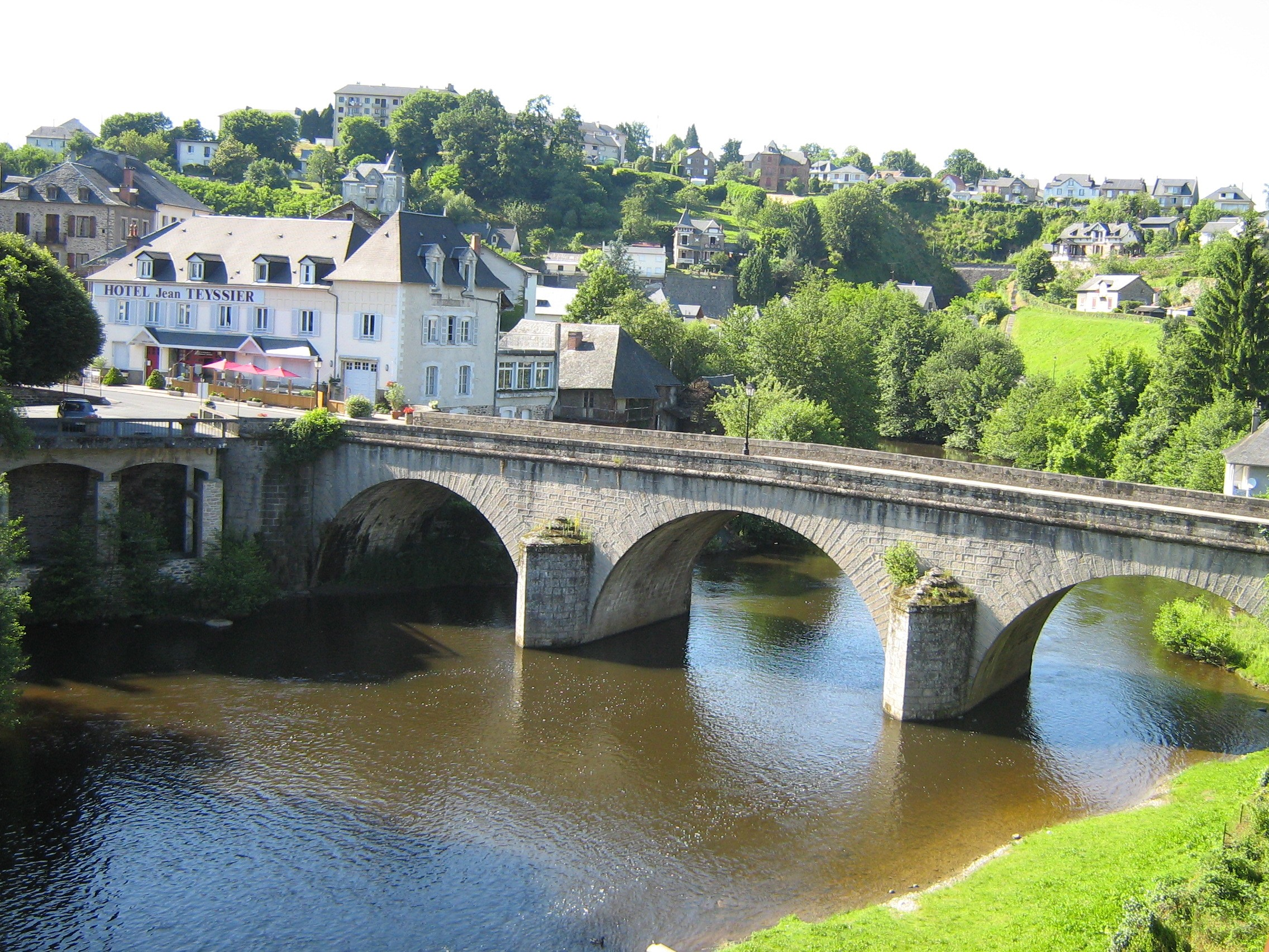 uzerche